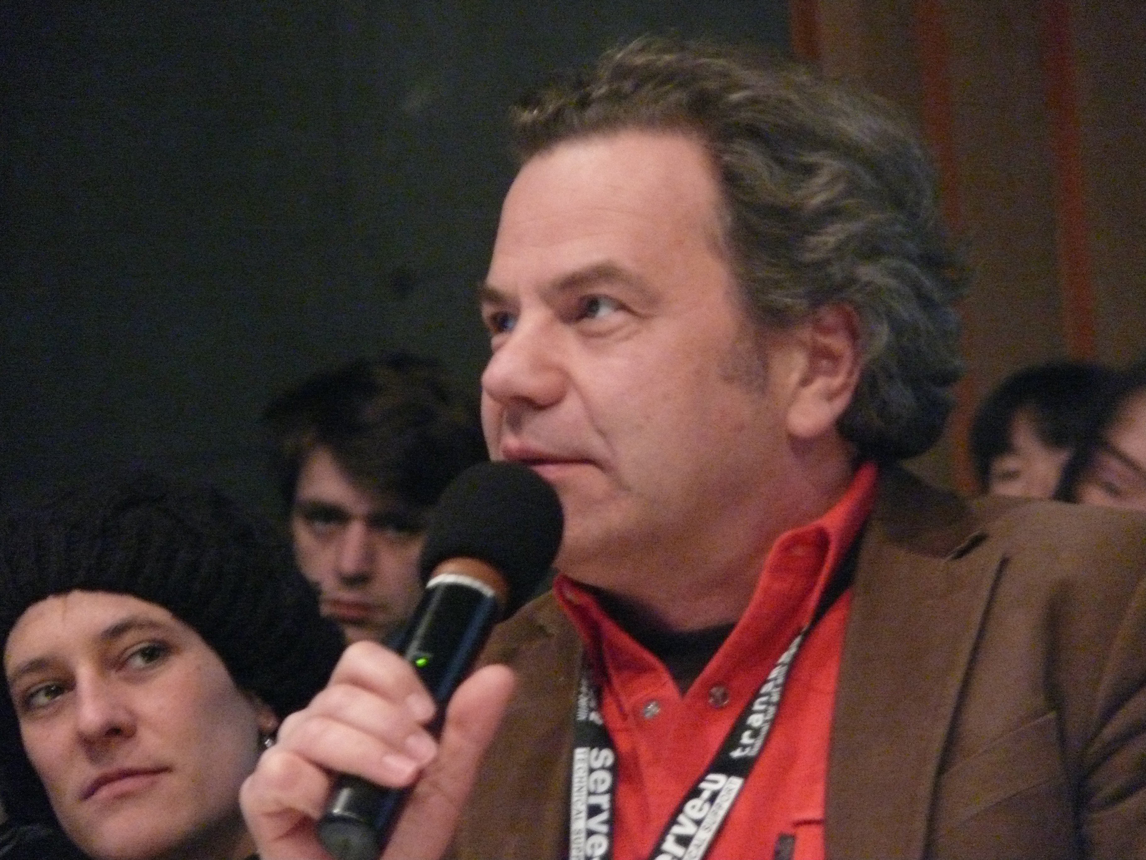 Oliver Grau in transmediale 10.